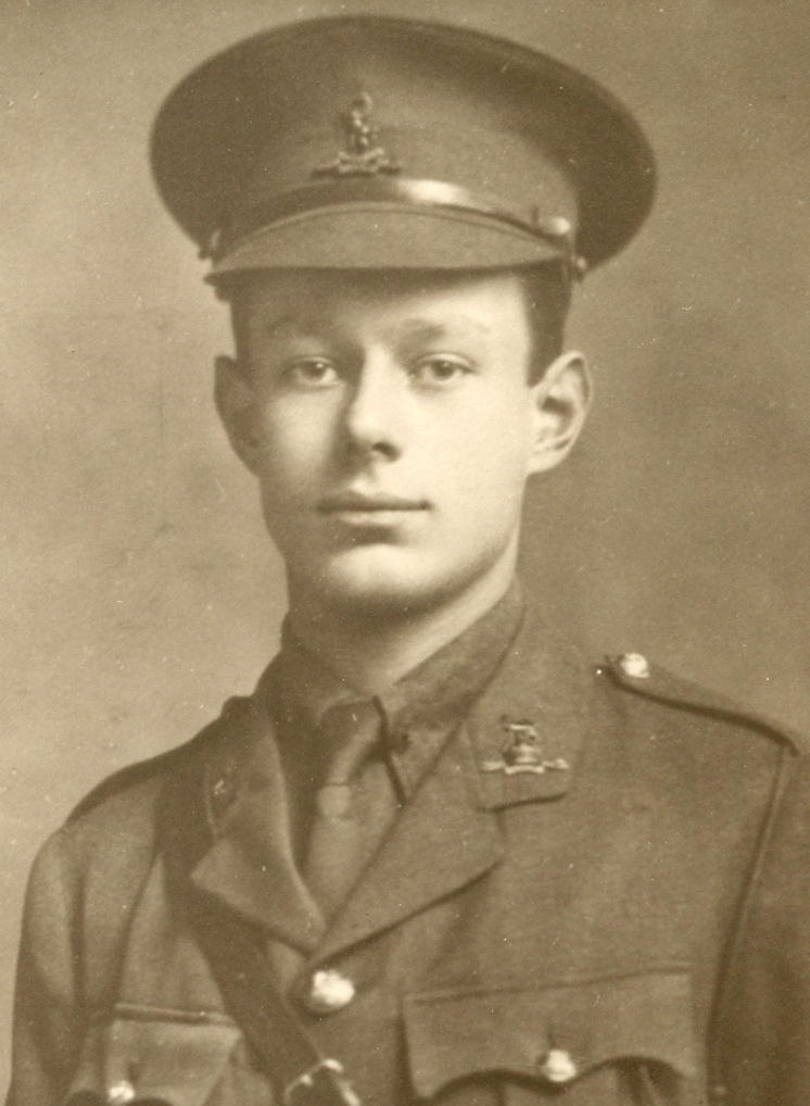 Frank Laurence Lucas, 2Lt, 7th Battalion, Royal West Kent Regiment, 1914